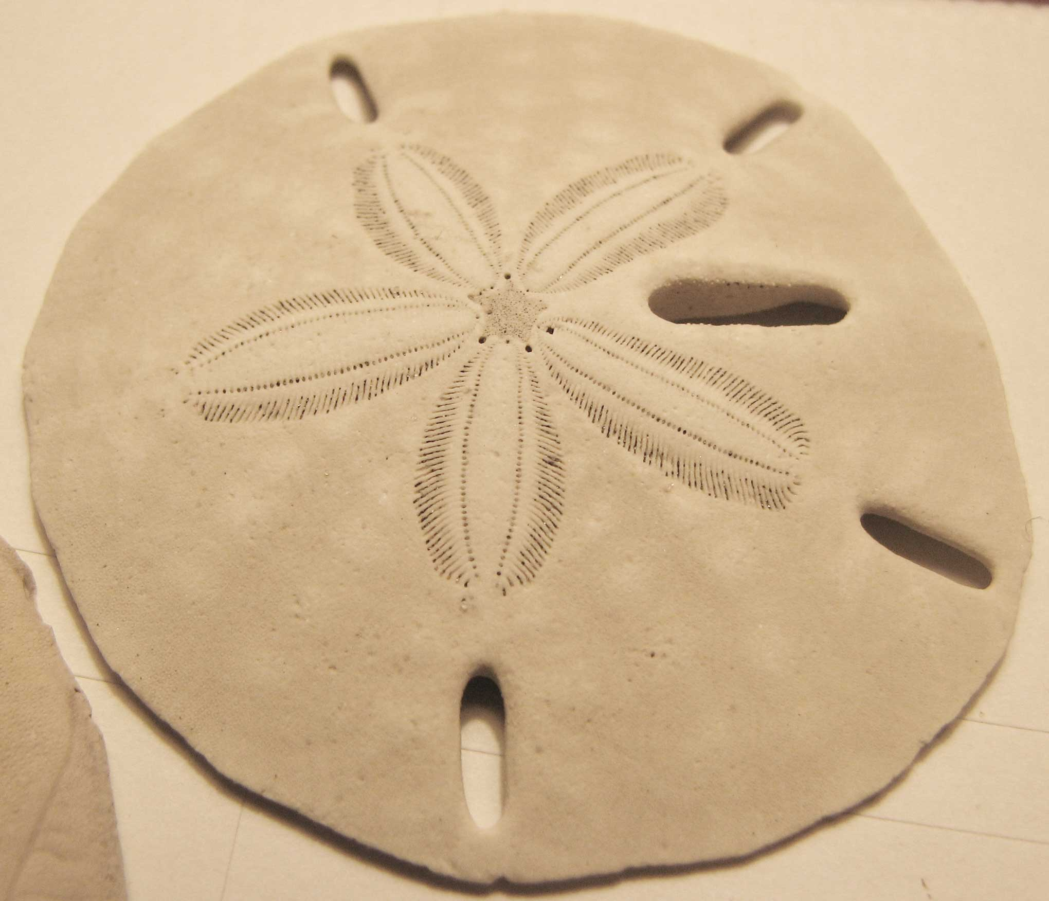 Keyhole Sand Dollar (Mellita quinquiesperforata)